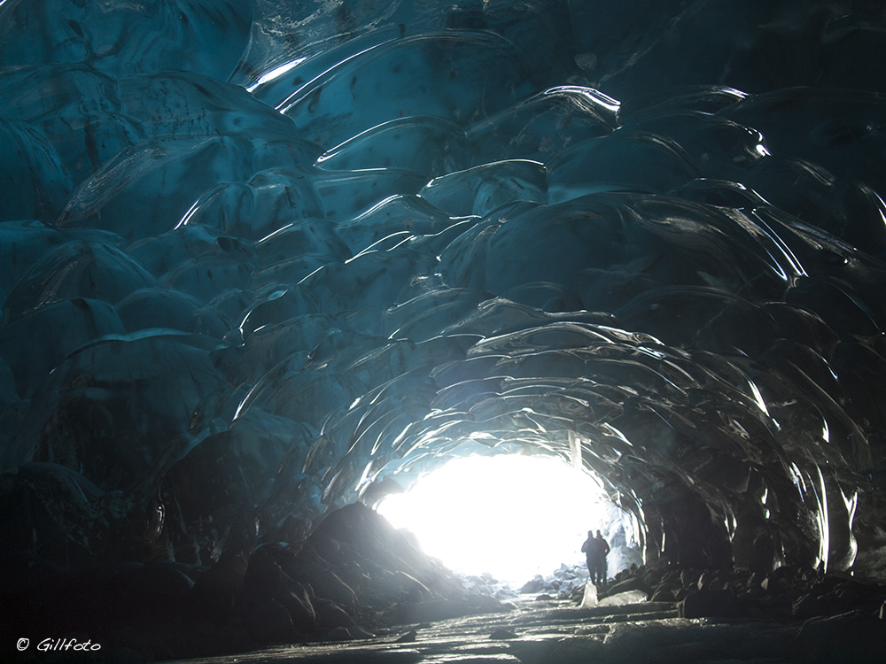 Mendenhall Glacier Ice cave